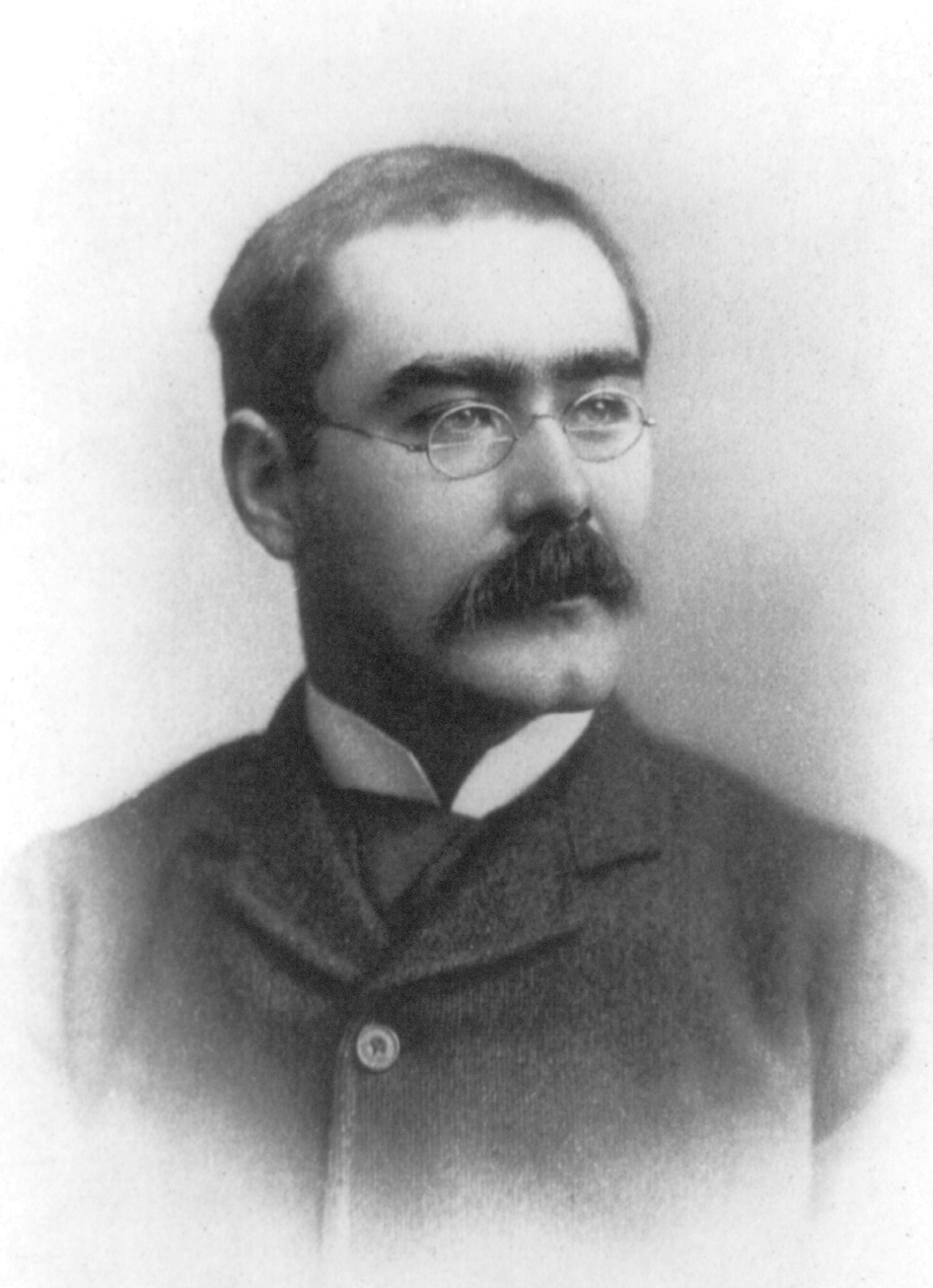 Kipling, Rudyard, 1865-1936, head-and-shoulders portrait, facing right